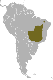 Hoary Fox range